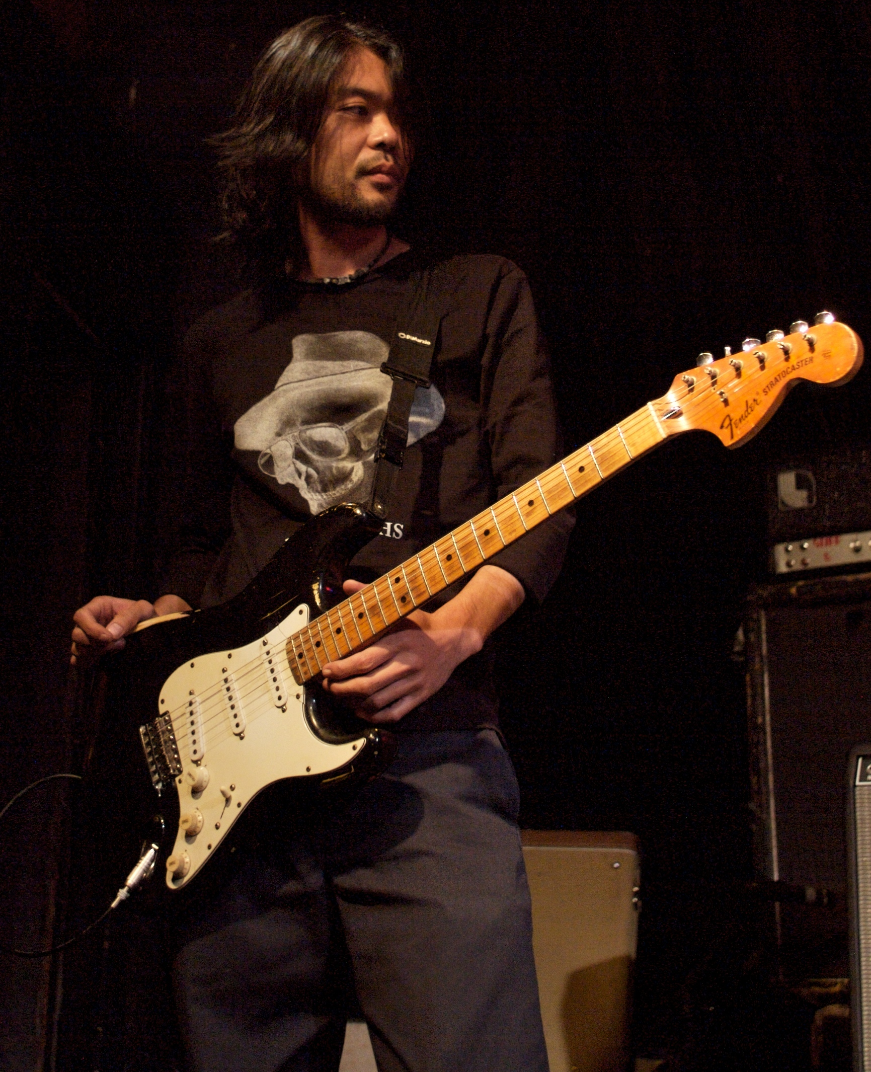 Mono at the Crocodile Cafe in 2007